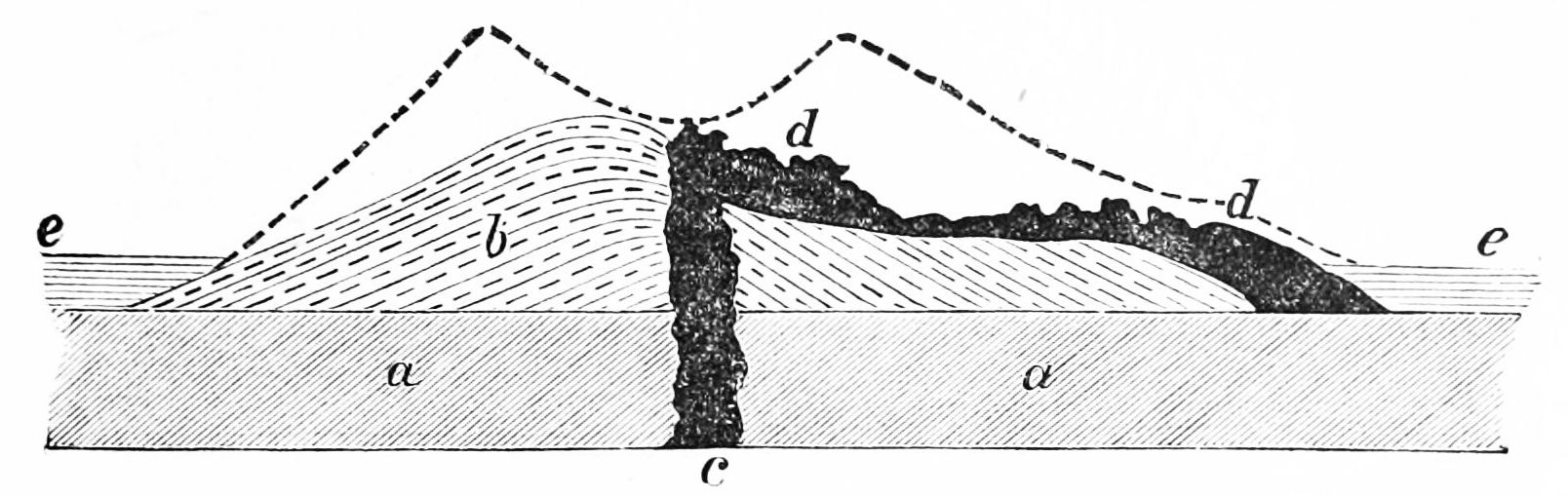 Section of the Kammerbühl in Bohemia